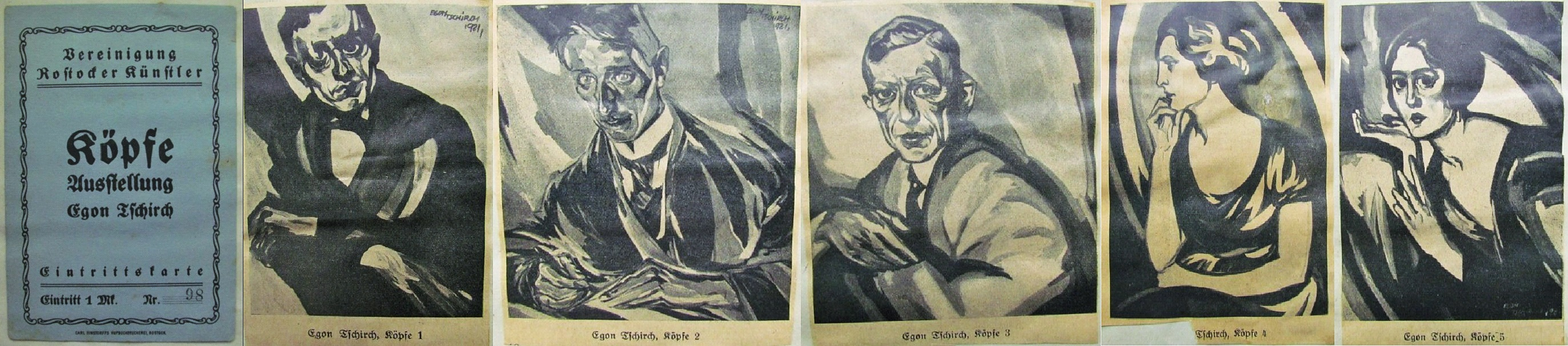 exhibition "heads" 1921 Rostock